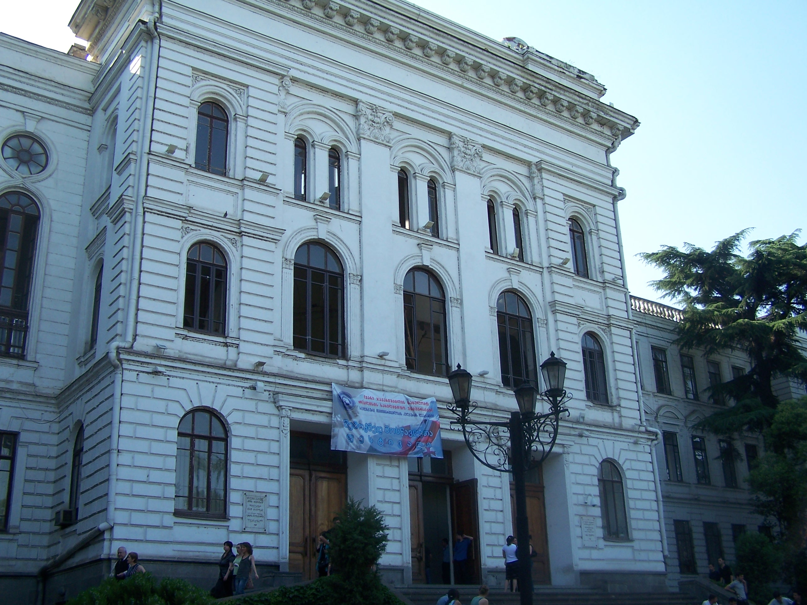 Tbilisi State University